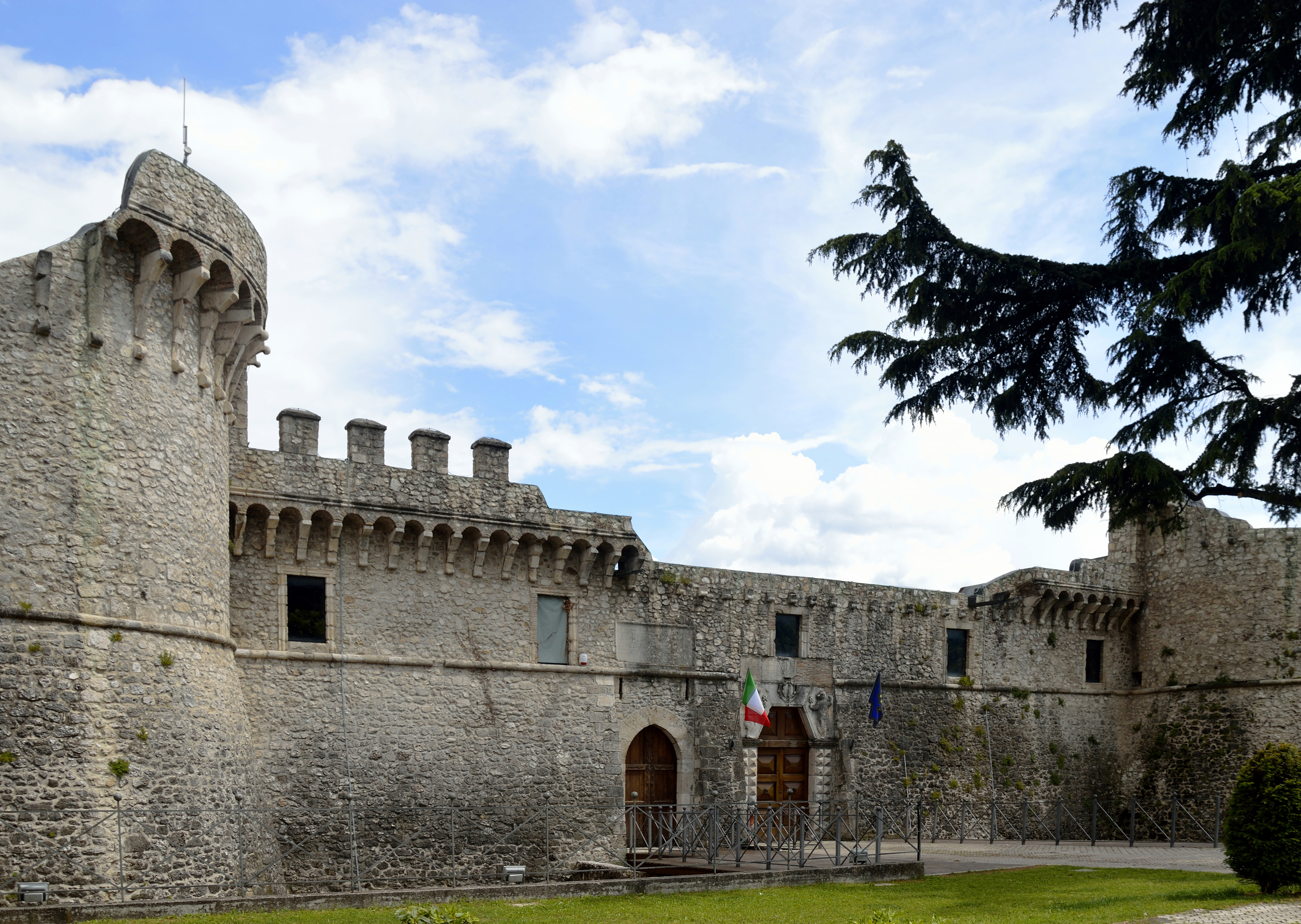 Orsini-Colonna castle, Avezzano, Abruzzo, Italy